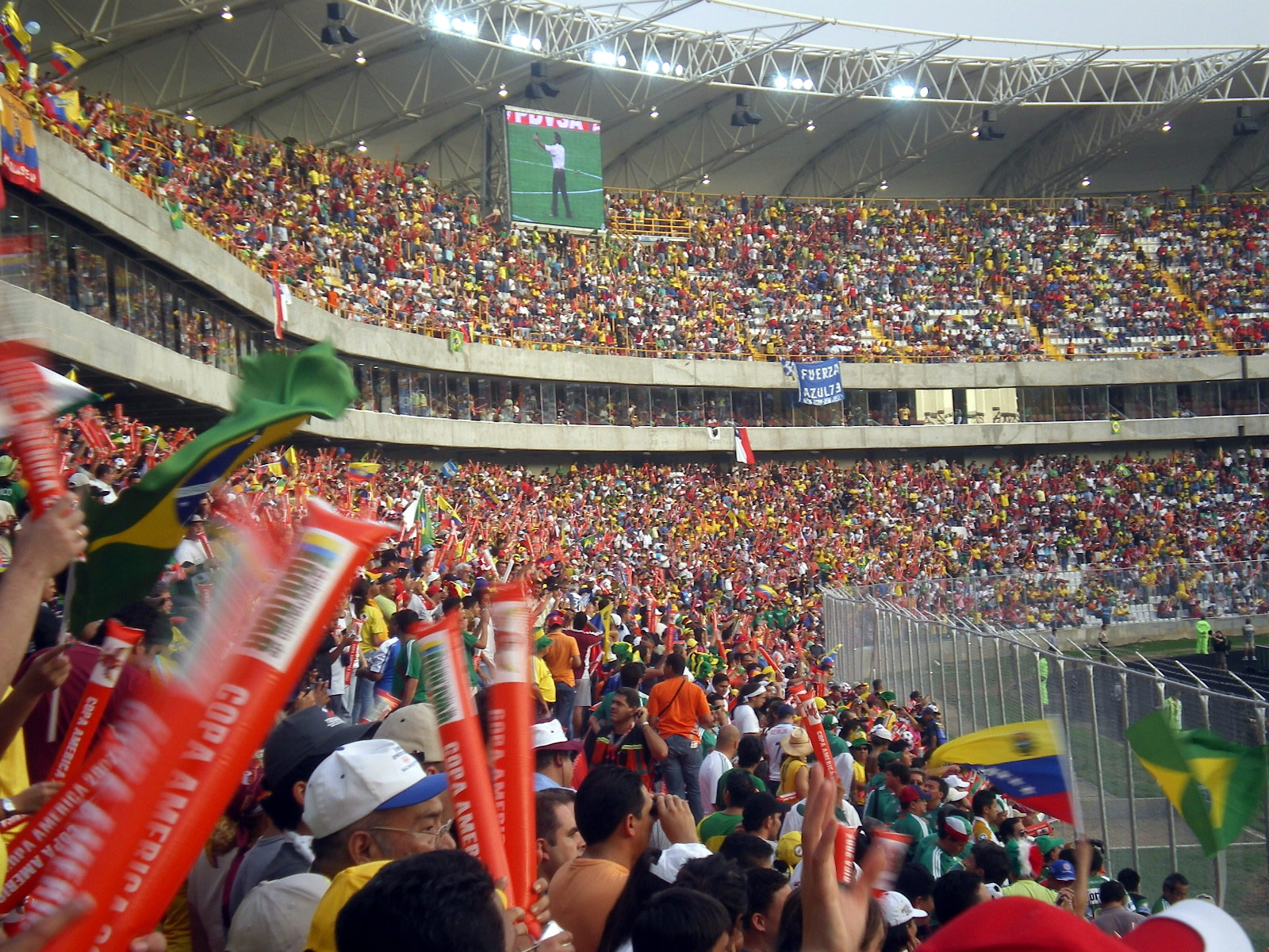 Vista de la Tribuna Popular, durante la Copa América 2007 - Photo of the Popular Tribune, during the Copa America 2007